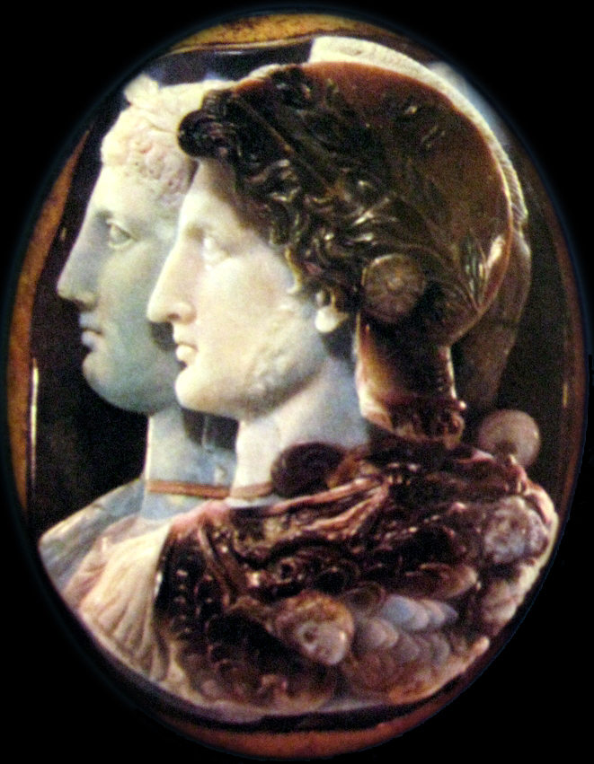 Cameo Gonzaga/ Камея Гонзага. Ptolemy II and Arsinoe II, III c. BC, Alexandria. Hermitage